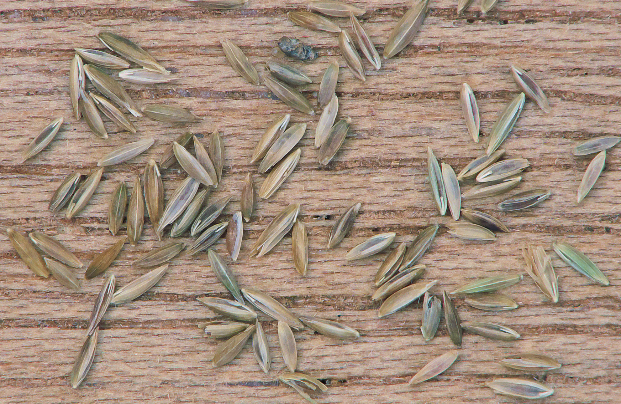 Poa trivialis